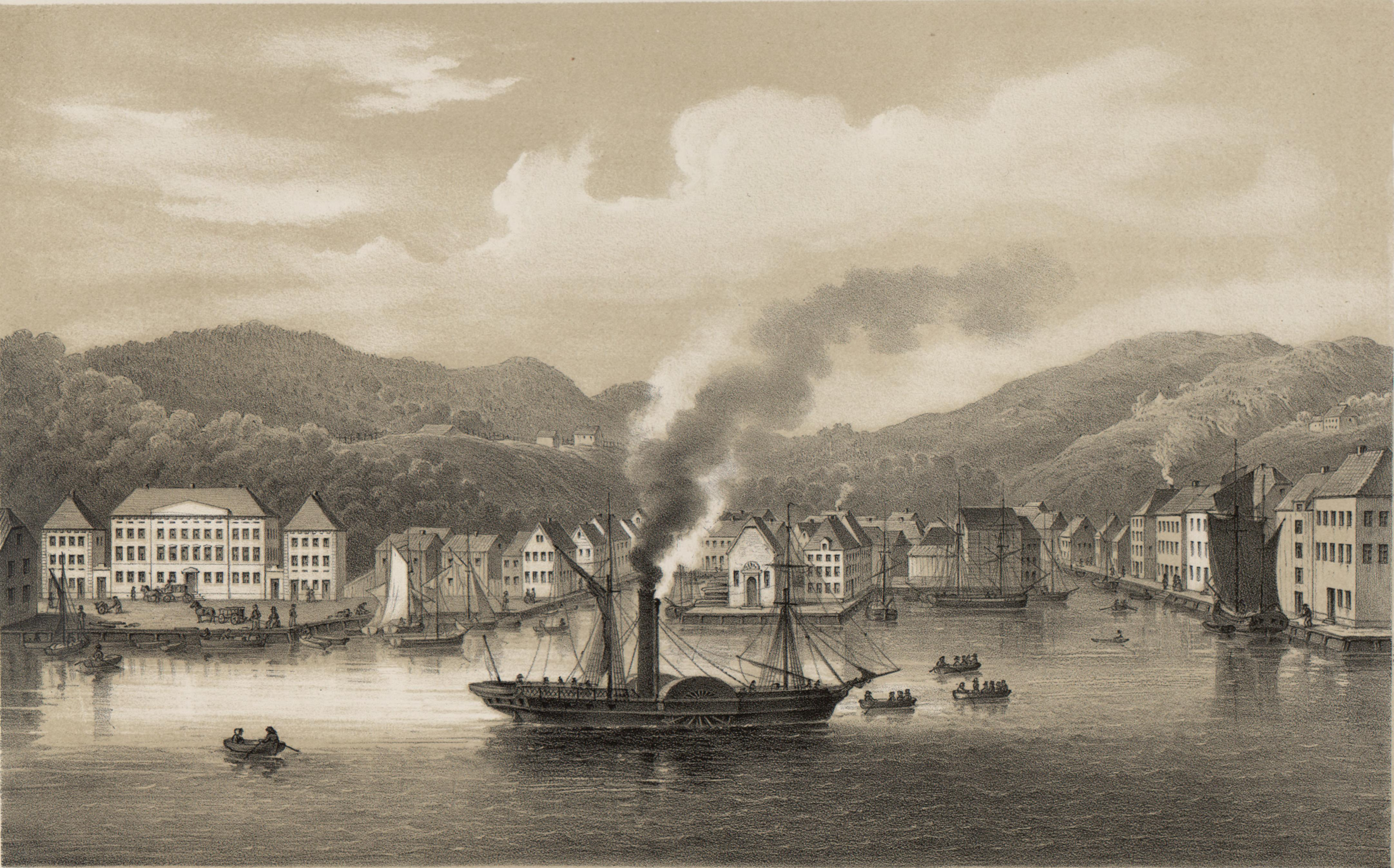 Picture from the work "Norge fremstillet i Tegninger" from 1848 by Asbjørnsen, P.Chr. and published by Chr. Tønsberg. The picture depicts the steamship «Constitutionen» in the harbour of Arendal, Aust-Agder county, Norway.